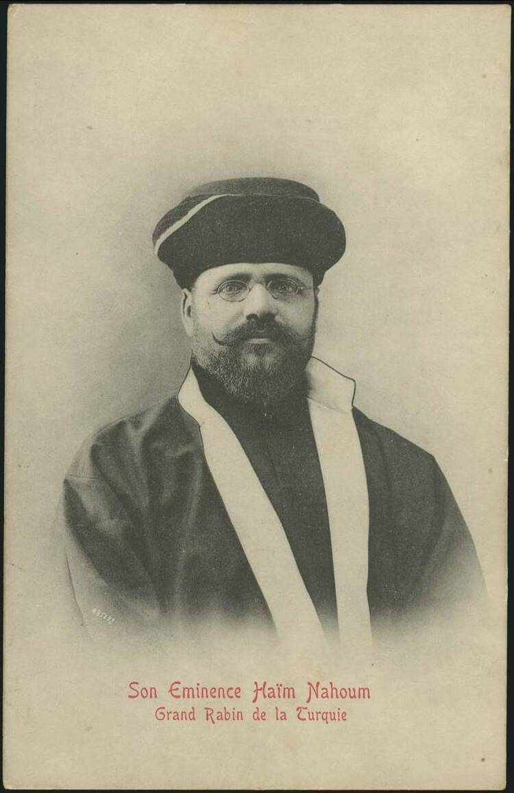 Haim Nahum Effendi (1872–1960), Chief Rabbi of the Ottoman Empire.